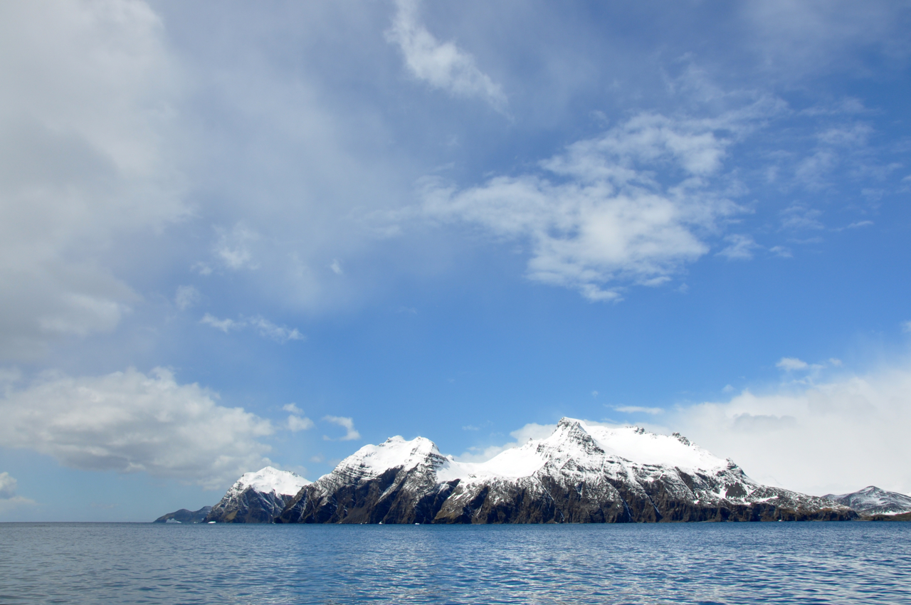 Possession Bay - South Georgia